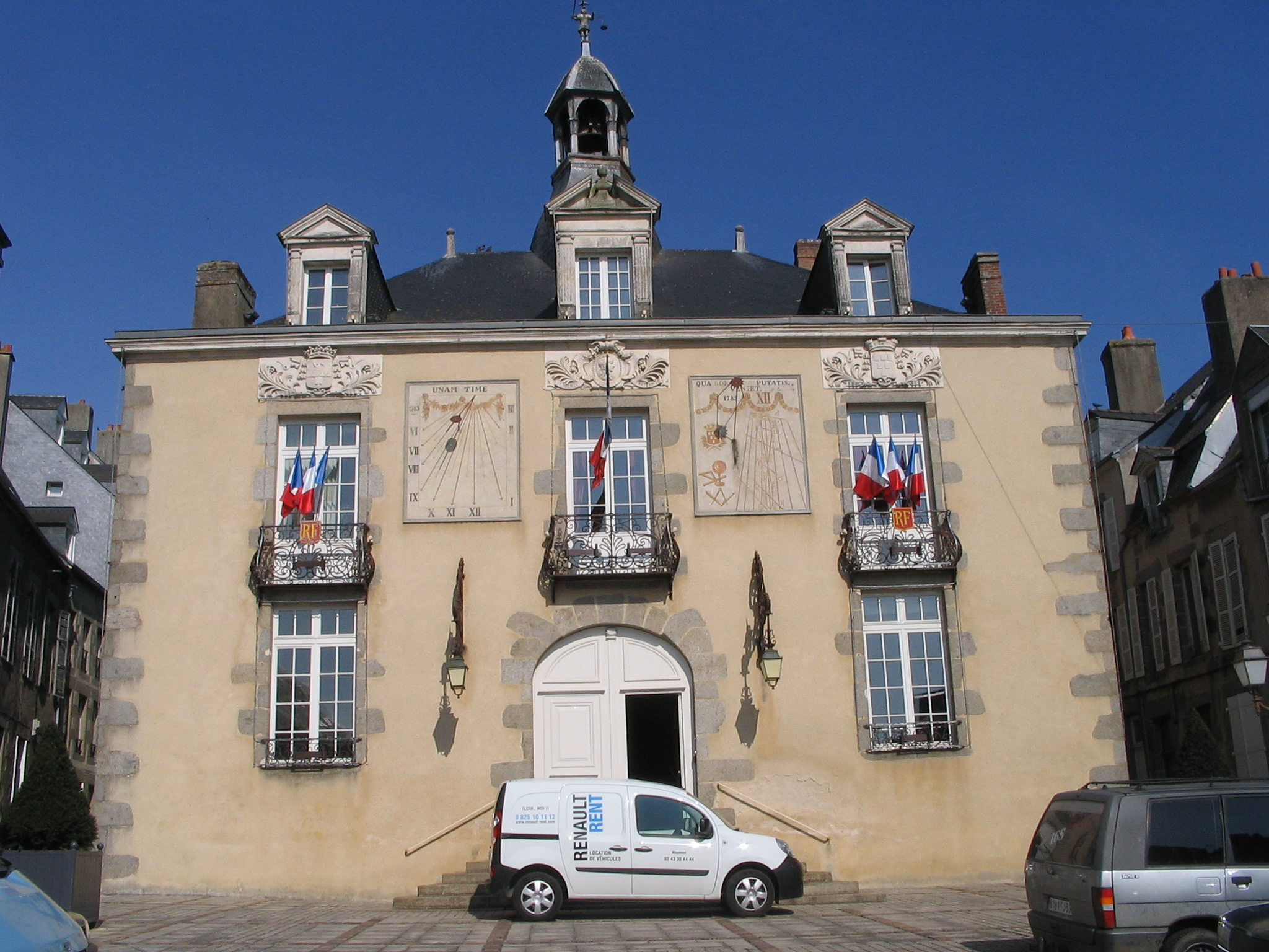 A municipal building in Mayenne, Mayenne, France.